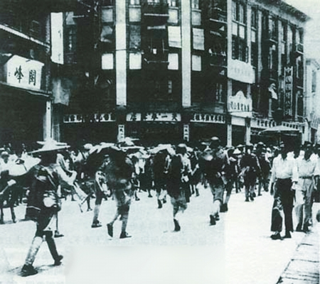 Chinese Communist People's Liberation Army took over Fuzhou from Kuomintang in August 17th, 1949. The picture shows PLA solders entered the commercial district near the Bridge of Ten Thousand Ages.